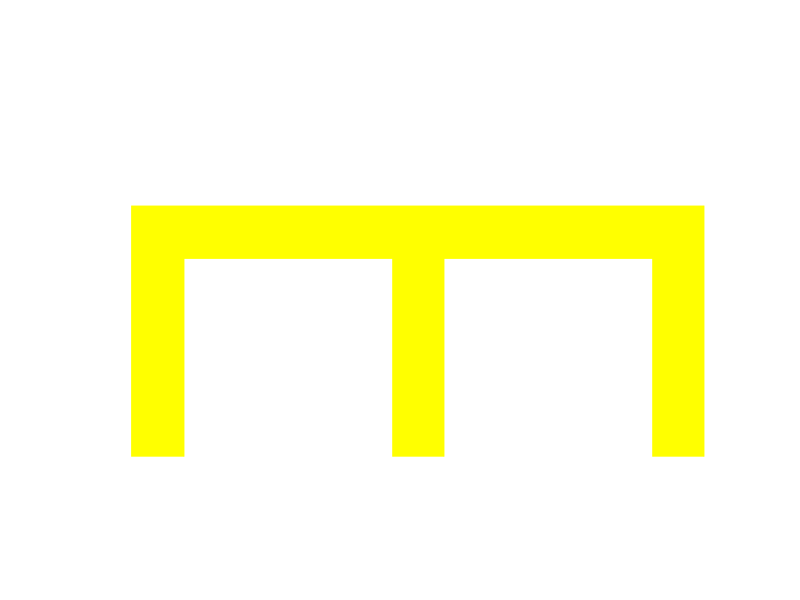 Mark of Ww2 GermanDivision Panzer 20 during WWII